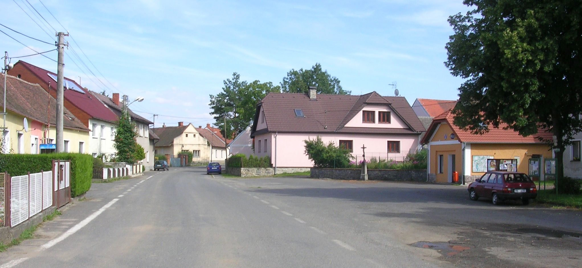 Příčovy, Příbram District, Central Bohemian Region, the Czech Republic. A bus stop.